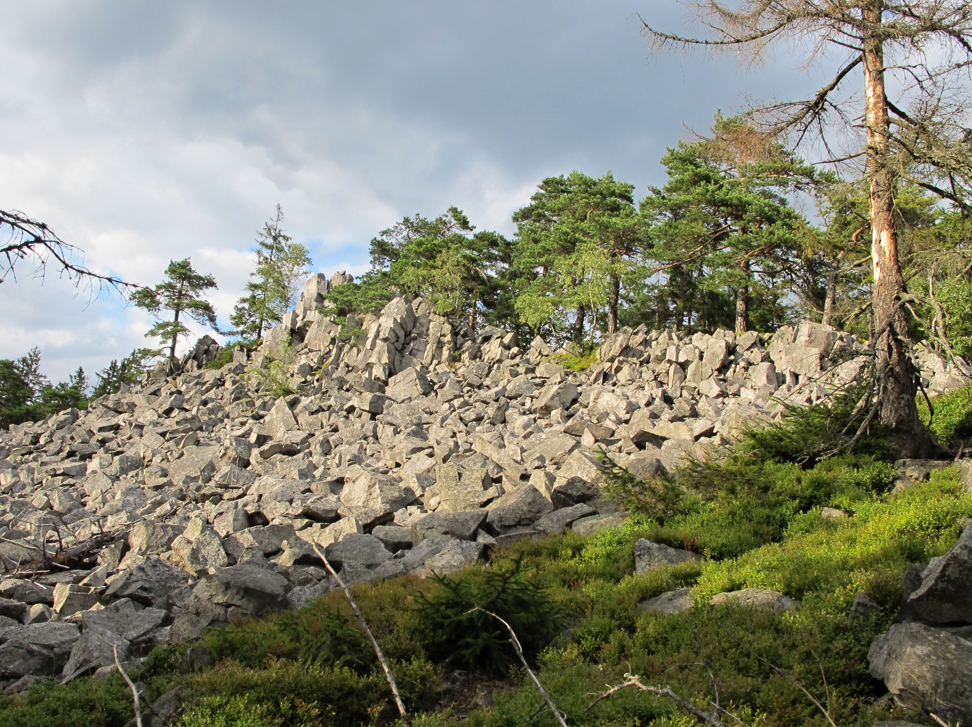 Natural monument Hřebenec, near Rožmitál pod Třemšínem in Příbram District (Czech Republic)